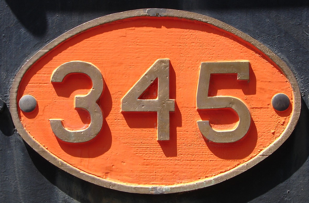 Ex Cape Government Railways Class 7 345 (4-8-0) number plate South African Railways Class 7 976 (4-8-0) Builder's Number: Neilson 4470 Location: Klerksdorp, North West